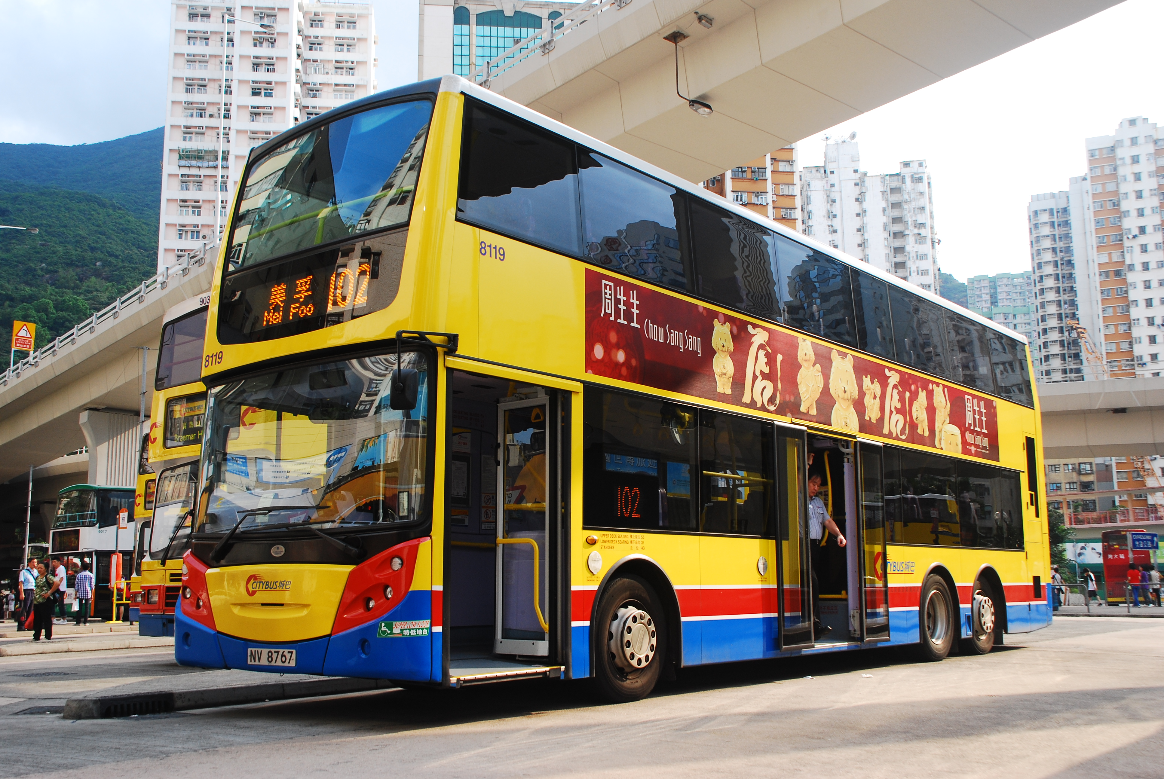 it was taken on 9/5/2010